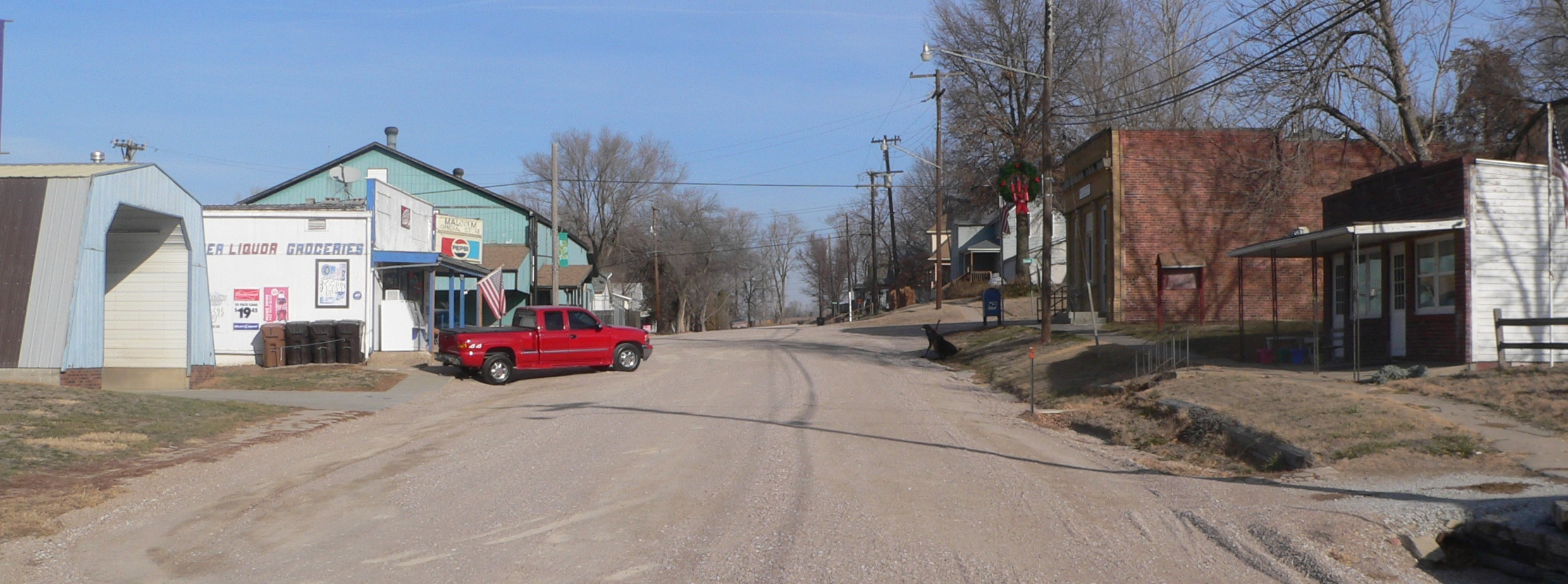 Downtown Malcolm, Nebraska: Lincoln Street, looking north from about Malcolm Road.